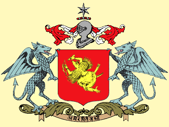 Jhalawar State Coat of Arms This work is in the public domain in India because its term of copyright has expired. The Indian Copyright Act applies in India, to works first published in India. According to The Indian Copyright Act, 1957 (Chapter V Section 25), Anonymous works, photographs, cinematographic works, sound recordings, government works, and works of corporate authorship or of international organizations enter the public domain 60 years after the date on which they were first published, counted from the beginning of the following calendar year (ie. as of 2018, works published prior to 1 January 1958 are considered public domain). Posthumous works (other than those above) enter the public domain after 60 years from publication date. Any other kind of work enters the public domain 60 years after the author's death. Text of laws, judicial opinions, and other government reports are free from copyright. Photographs created before 1958 are in the public domain 50 years after creation, as per the Copyright Act 1911. This file may not be in the public domain outside India. The creator and year of publication are essential information and must be provided. See Wikipedia:Public domain and Wikipedia:Copyrights for more details. This image shows a flag, a coat of arms, a seal or some other official insignia. The use of such symbols is restricted in many countries. These restrictions are independent of the copyright status.